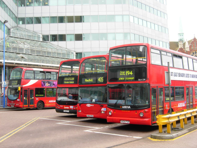 West Croydon Bus Station. A number of bus routes from different parts of south London, as well as the rural districts of Surrey, converge at West Croydon. Here several vehicles lay over between duties.